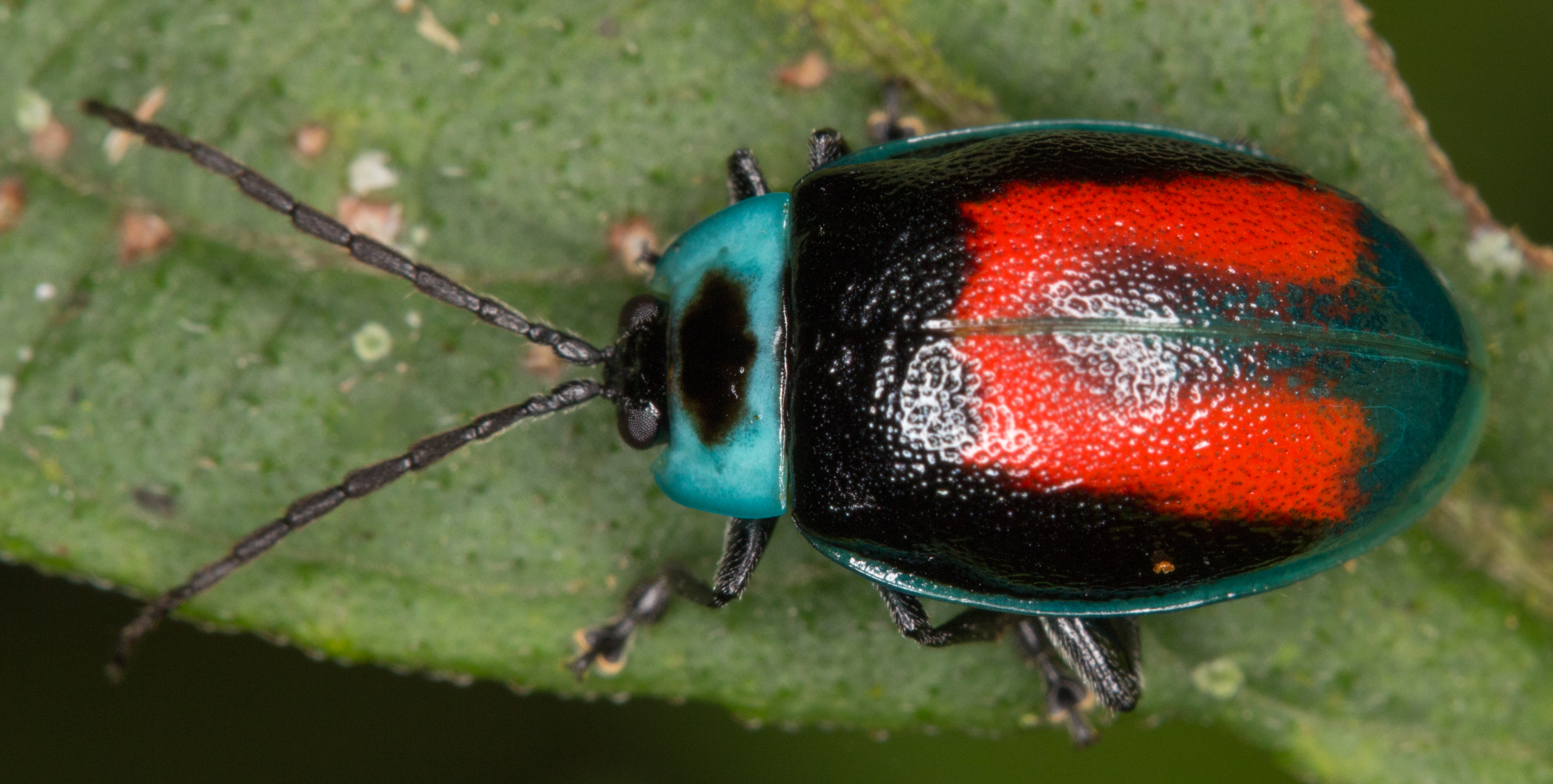 Flea bettle from Ecuador